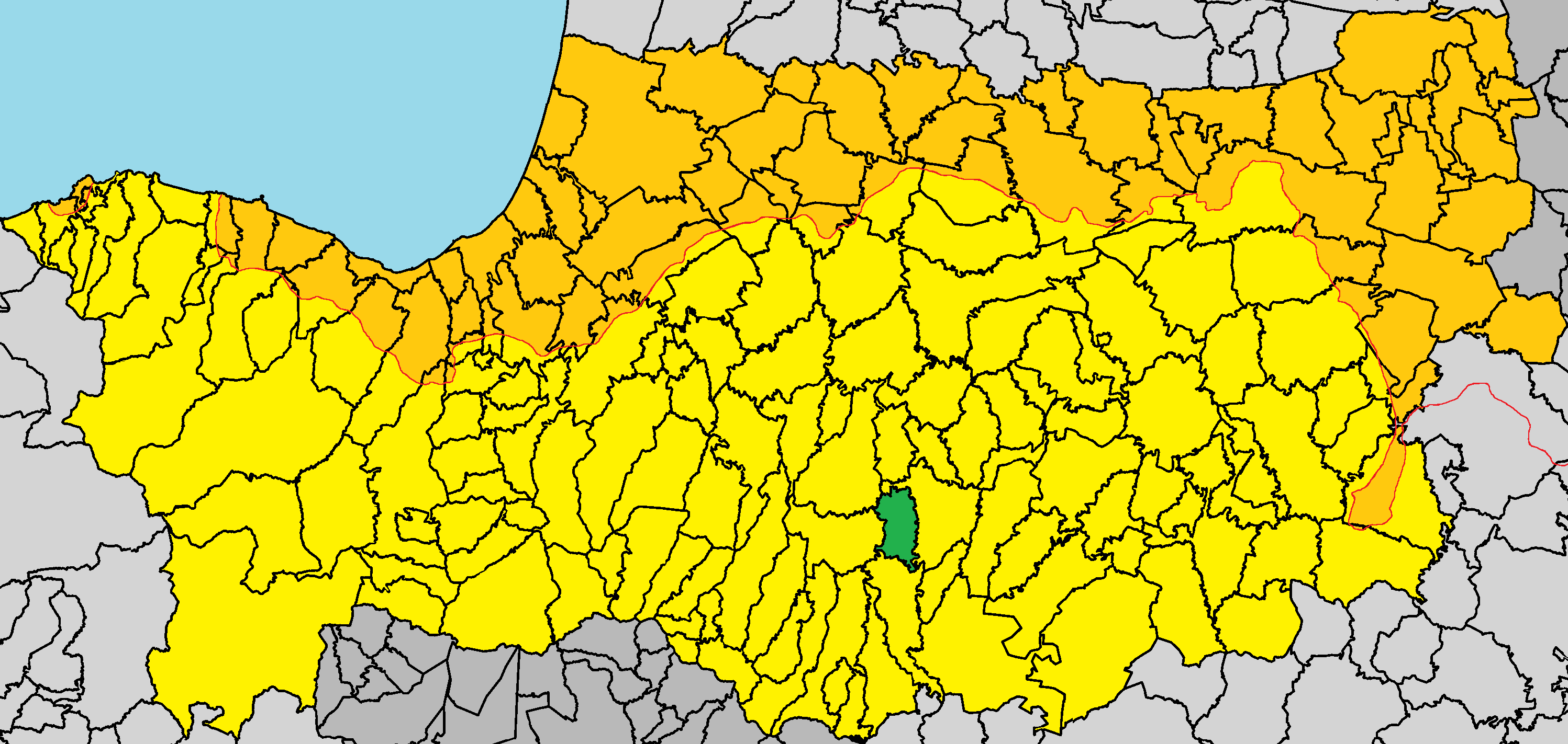 Kalo Chorio Oreinis in Nicosia District.